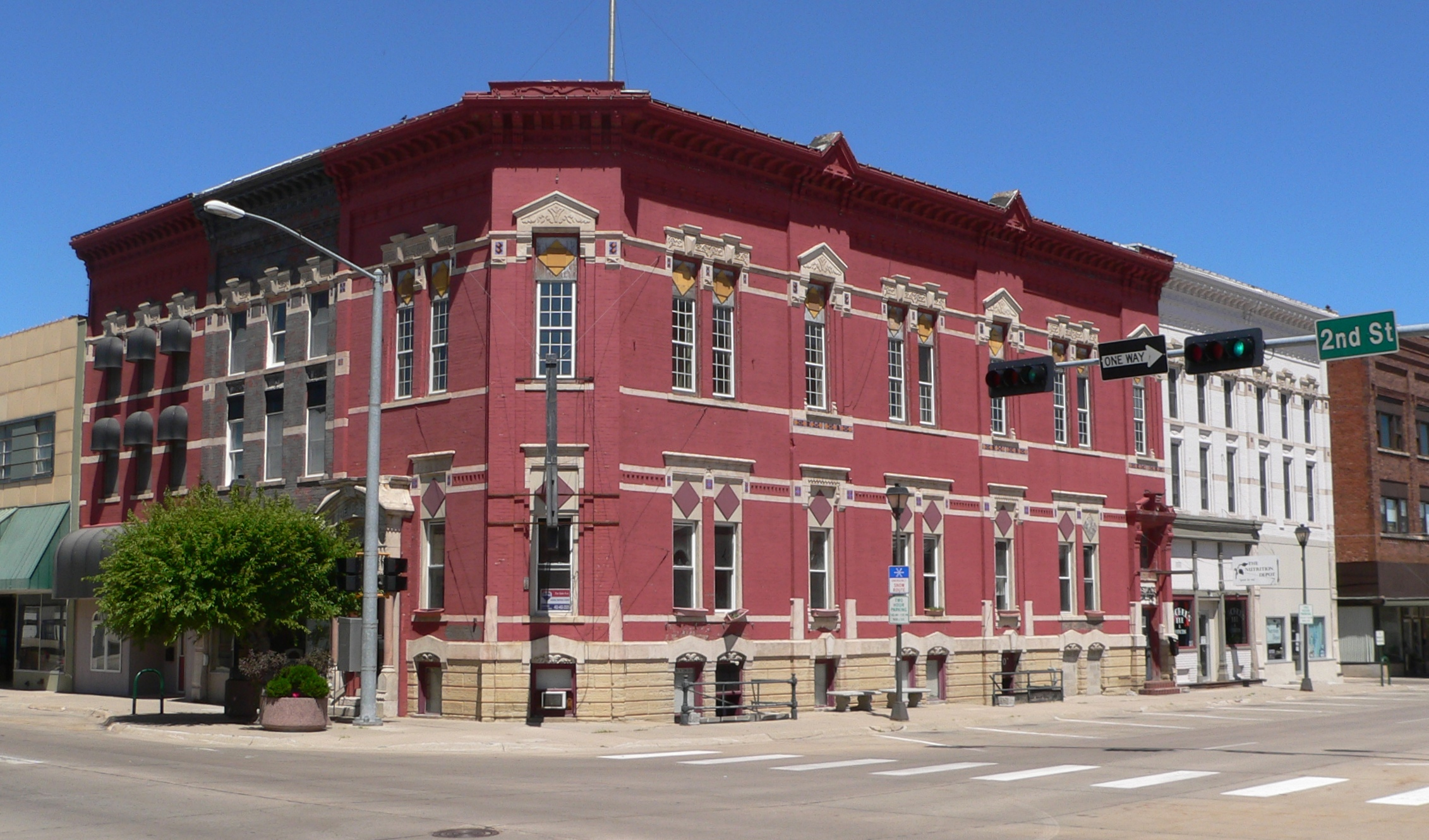 Nebraska Loan and Trust Company Building, located at northwest corner of 2nd Street and Lincoln Avenue in Hastings, Nebraska; seen from the southeast. The Italianate building was constructed in 1883-84. It is listed in the National Register of Historic Places. The building consists of both the red brick corner section and the lighter section to the right (between the "One Way" and "2nd St" signs).